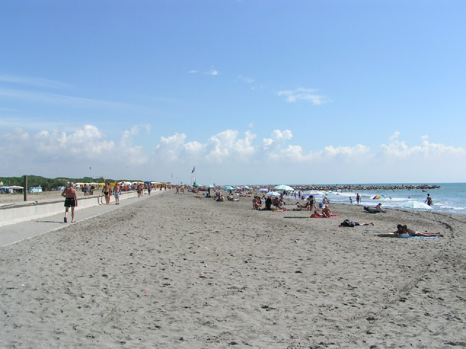 The beach at Eraclea.